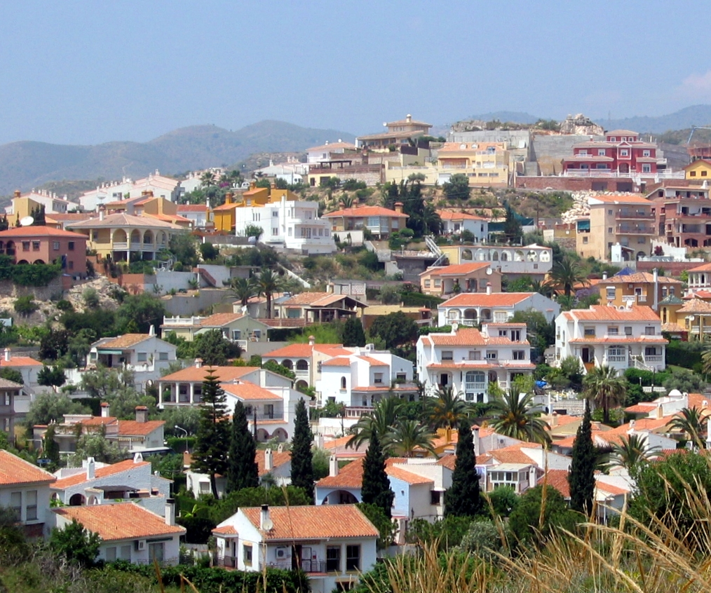 Houses in Rincón de la Victoria, Málaga, Spain